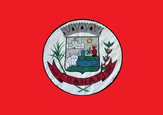 Flags of the city of Caraí, Minas Gerais, Brazil.